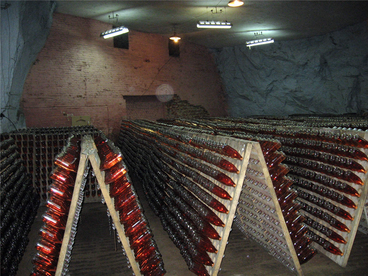 Artyomovsk Winery, wine cellar